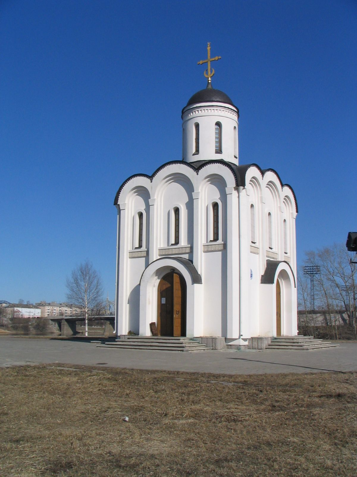 Church of Saint Mihail in Tver, Russia